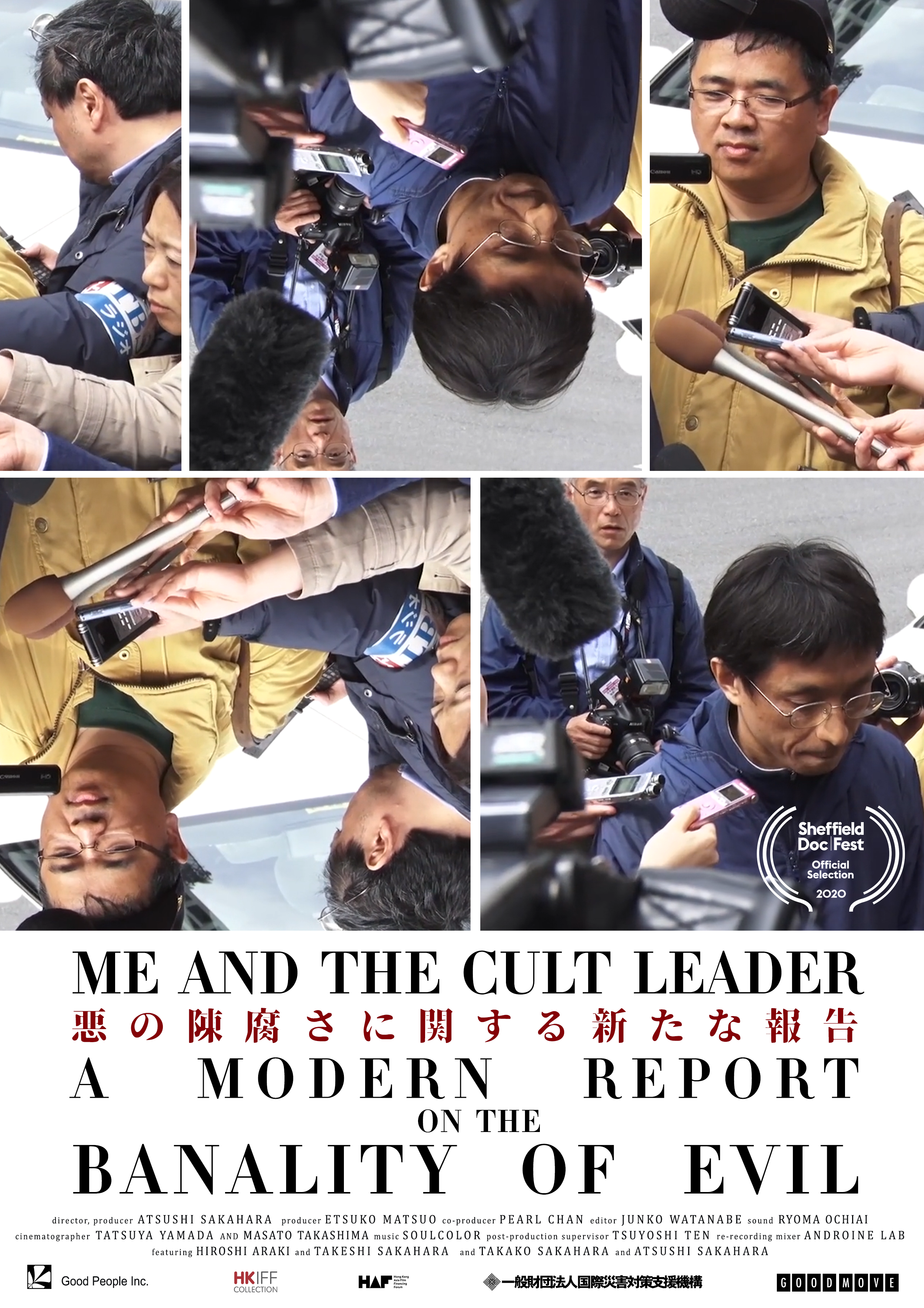 Poster of Japanese Documentary Me and the Cult Leader upon premiere at Sheffield Doc Fest 2020. Repeated images of director Atsushi Sakahara and current Aleph executive Hiroshi Araki after the annual laying of flowers ceremony memorializing the 1995 Tokyo Subway Sarin Gas Attack.